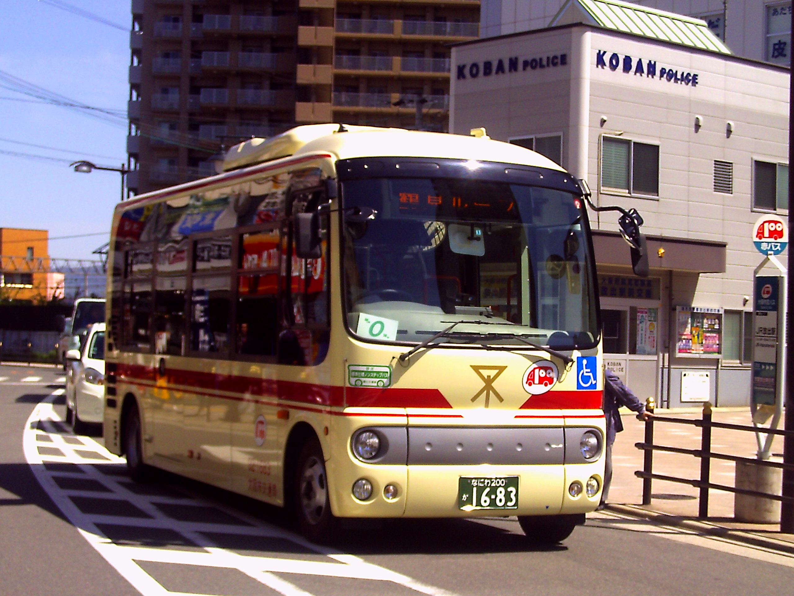 Community buses in Hanaten Station at Osaka